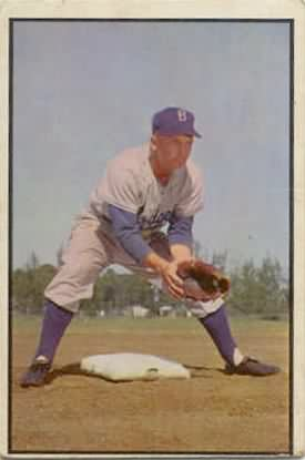 1953 Bowman color baseball card of Bobby Morgan of the Brooklyn Dodgers #135. PD-not-renewed.